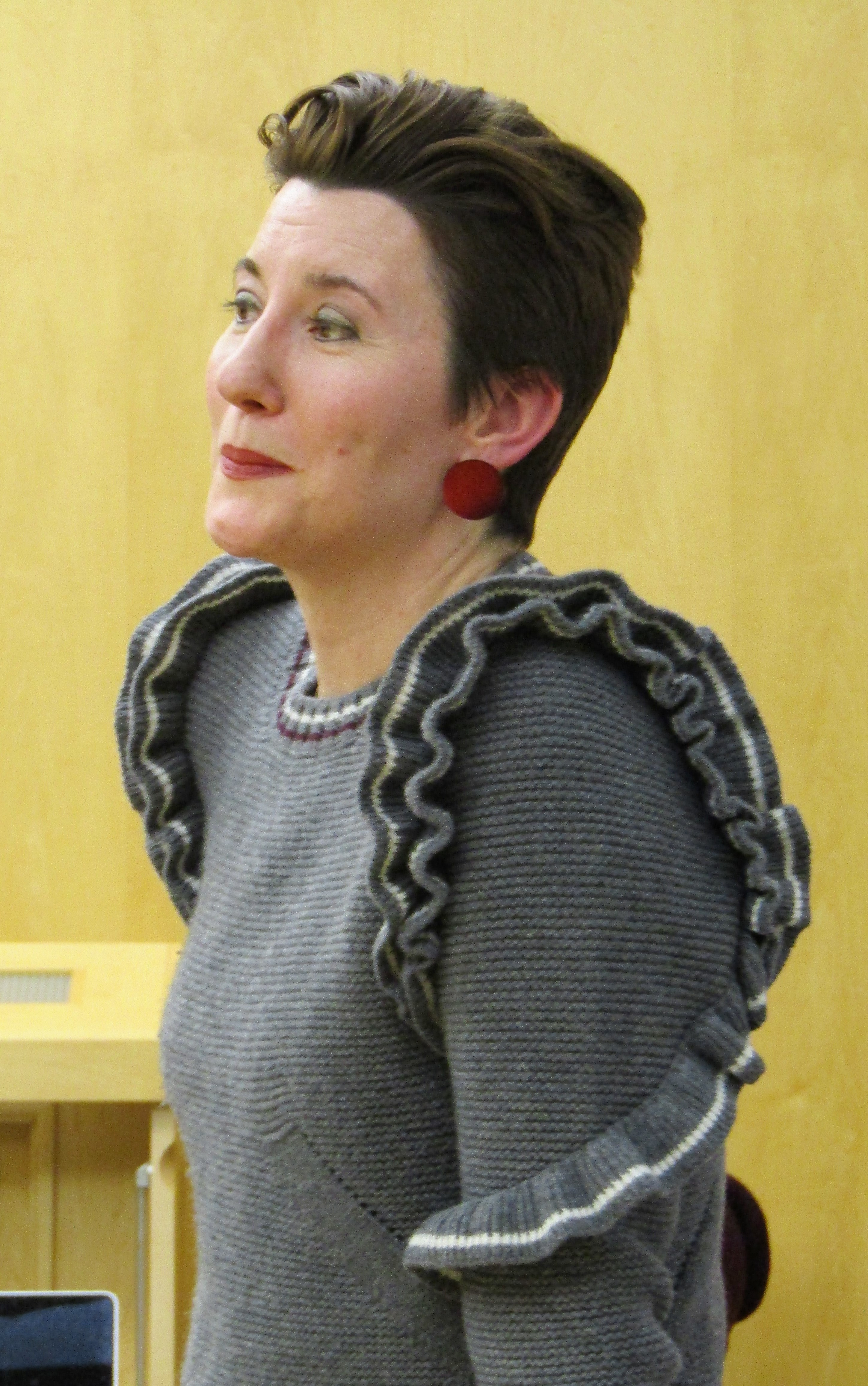 Neylan McBaine in the Joseph F. Smith Building talking about her book Women at Church.